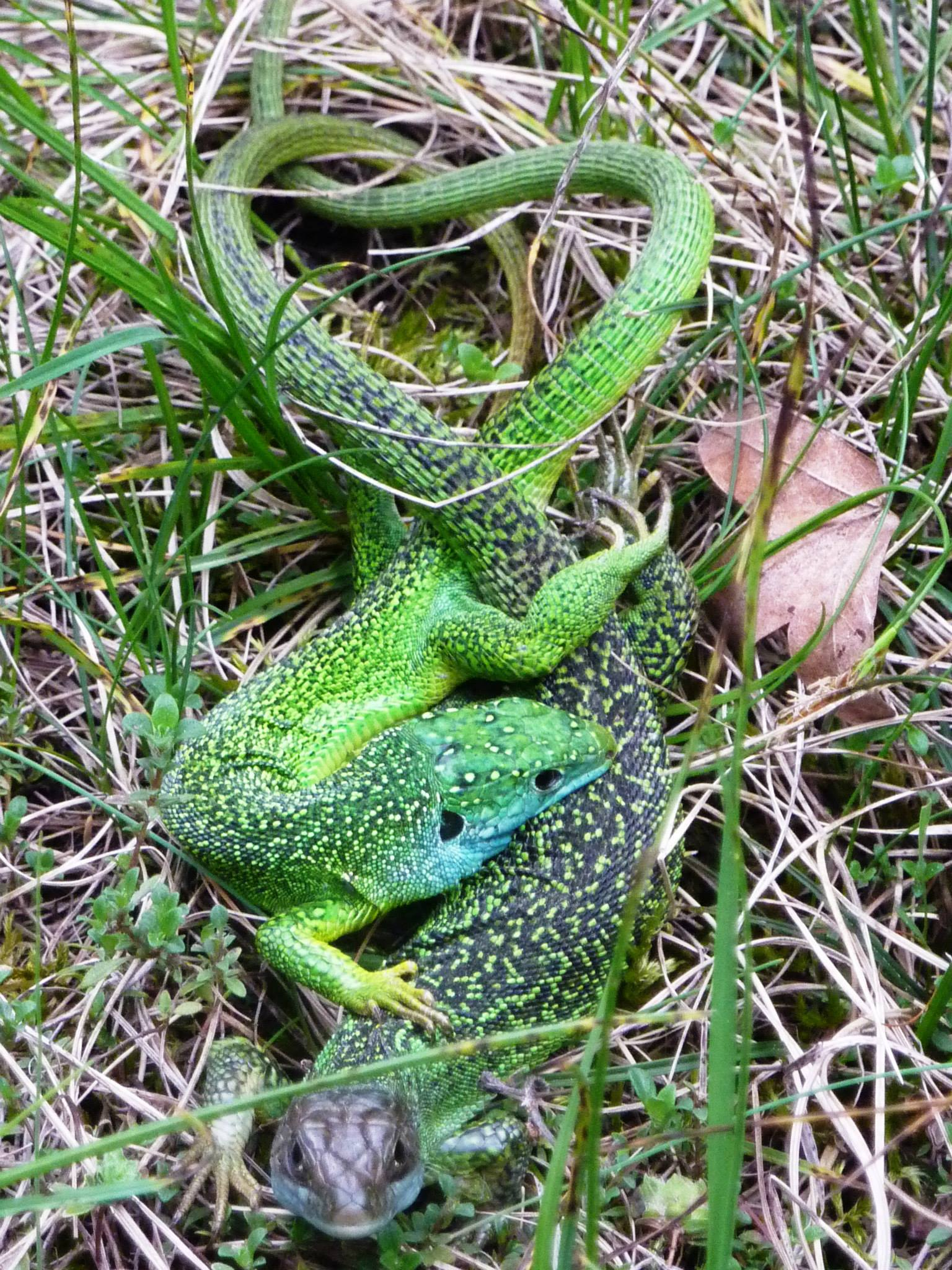 Western green lizards or Lacerta bilineata, Coupling